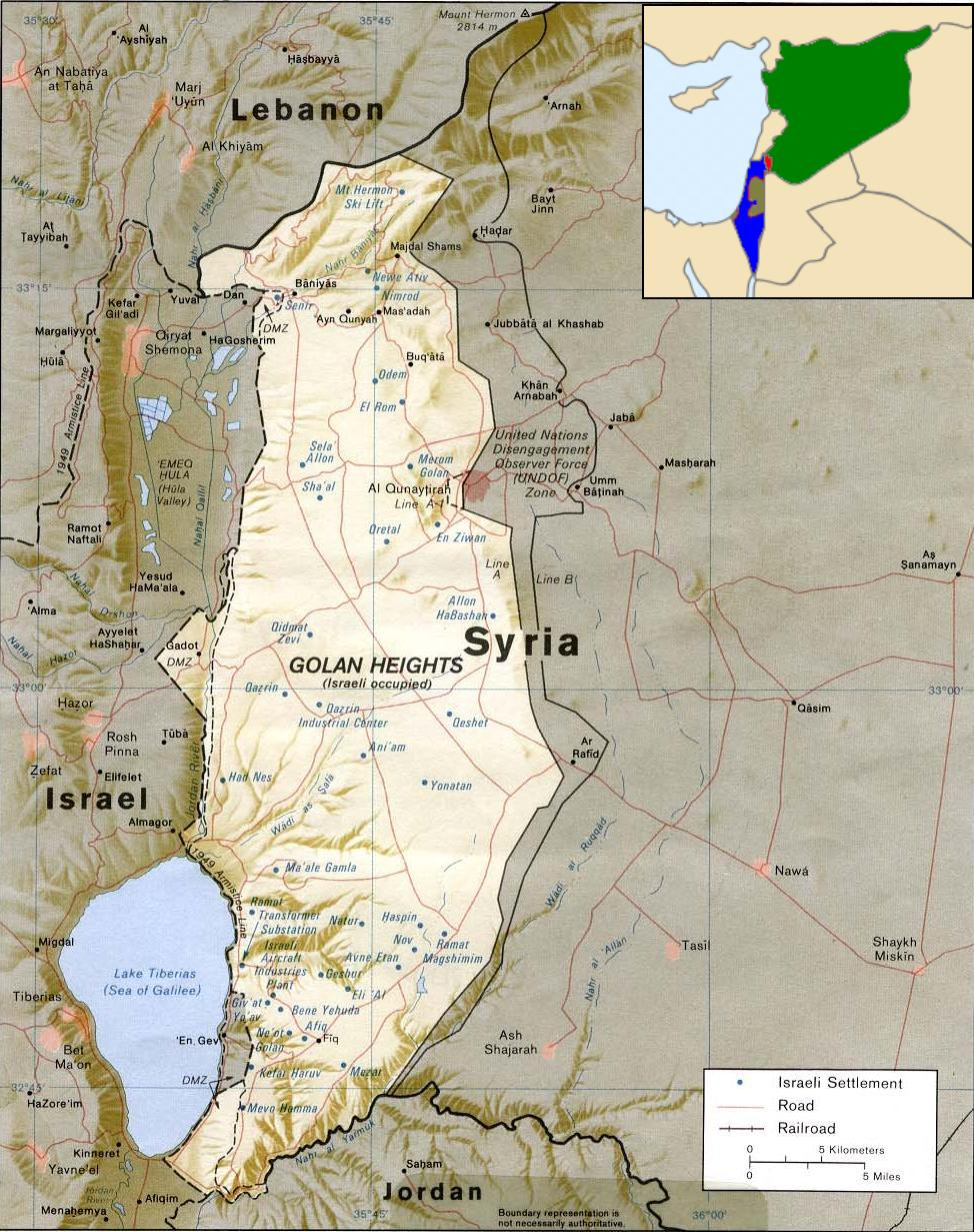 Map of the Golan Heights